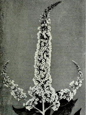 Photo of the inflorescence of Buddleja 'Eva Dudley'